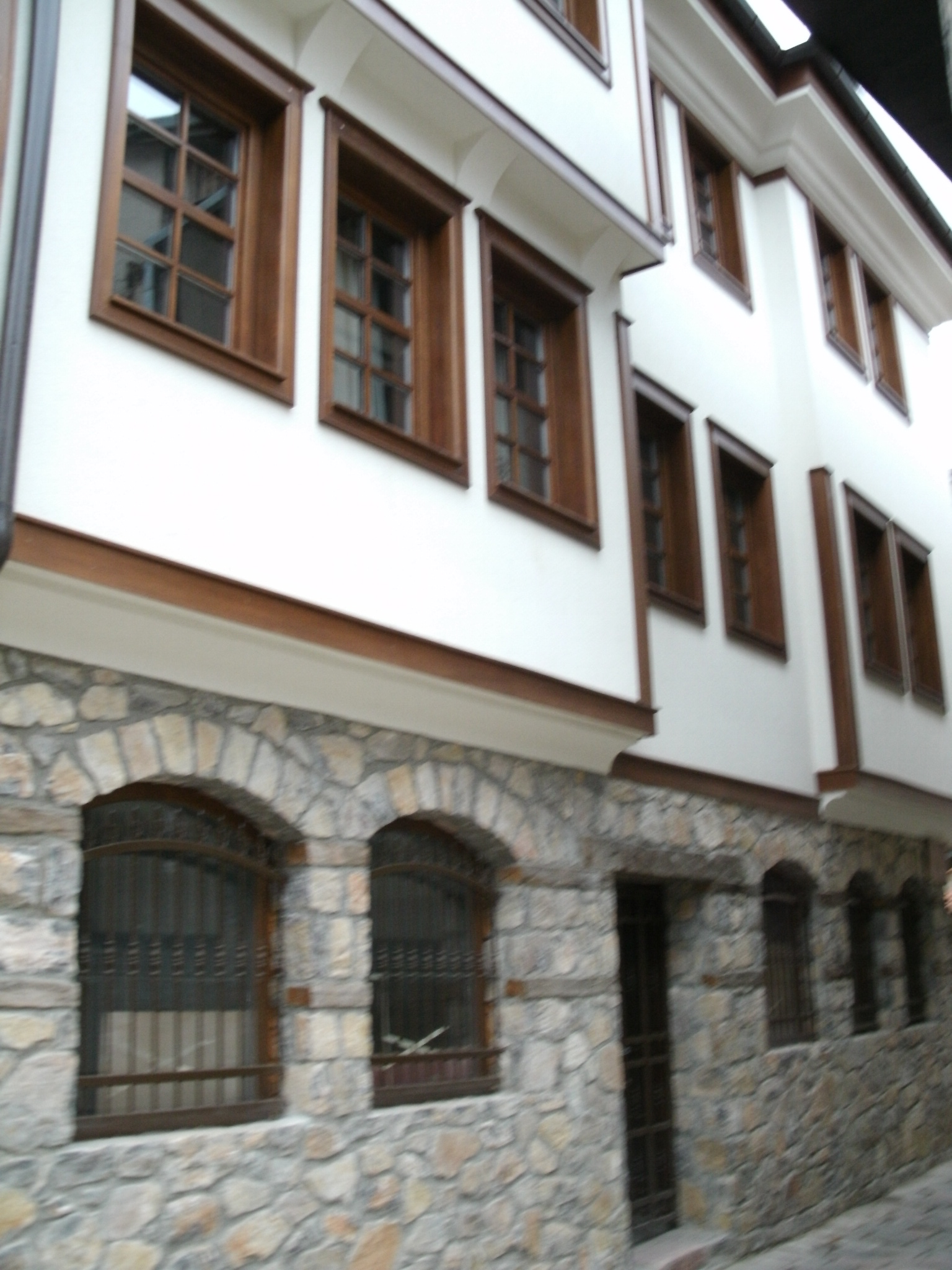 House of family Boshnakovi from Ohrid, Marko Boshnakov is bulgarian revolutionary